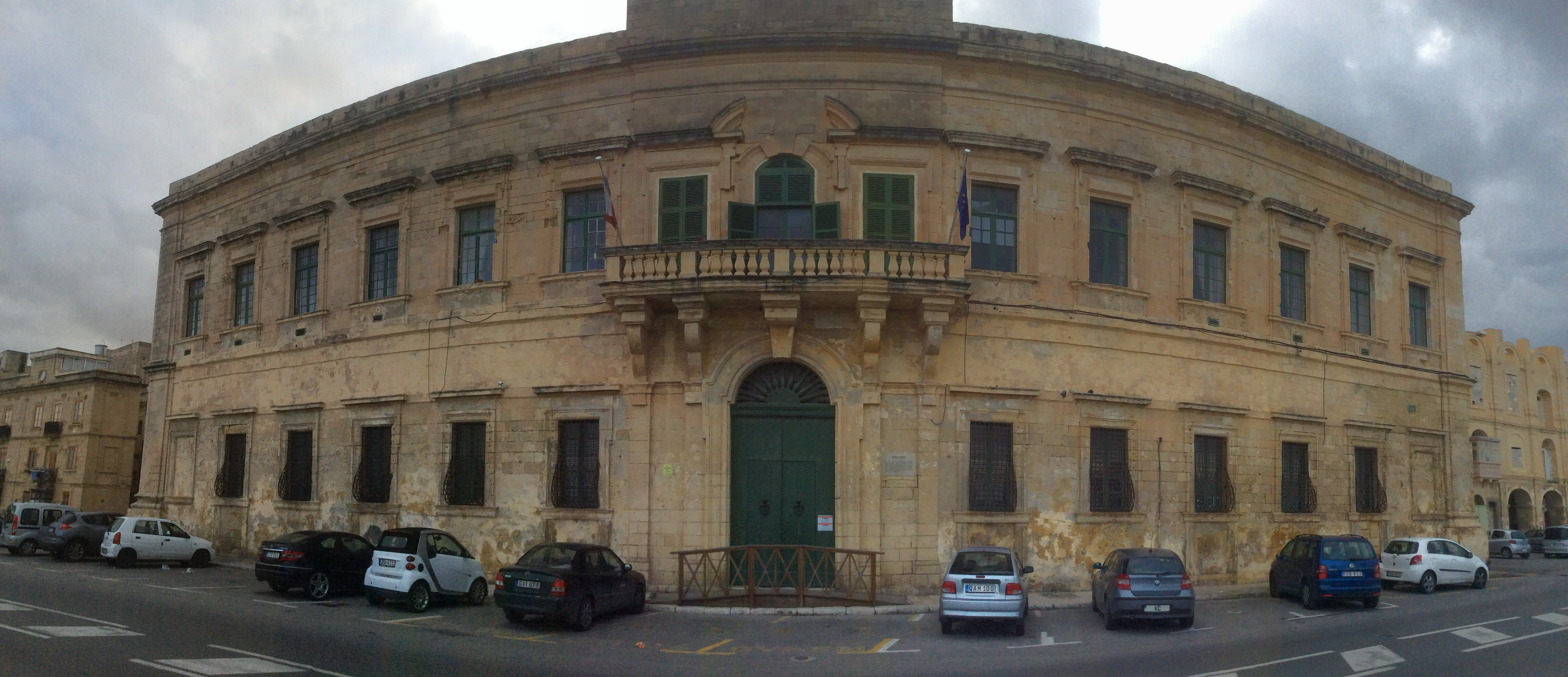 Valletta Auberge waterfront